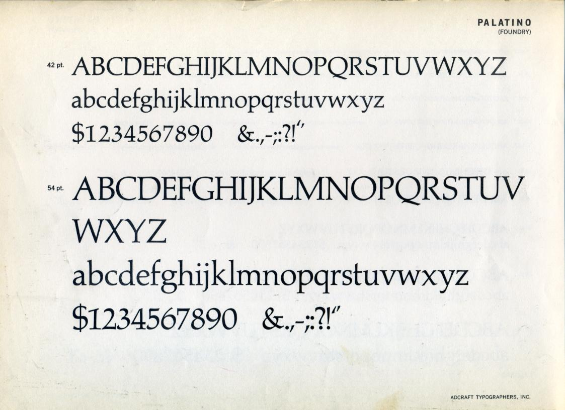 Palatino from a metal type specimen sheet. The design features the modern 'E', 'F', 'p' and 'q', rather than variant forms seen on some early specimens.